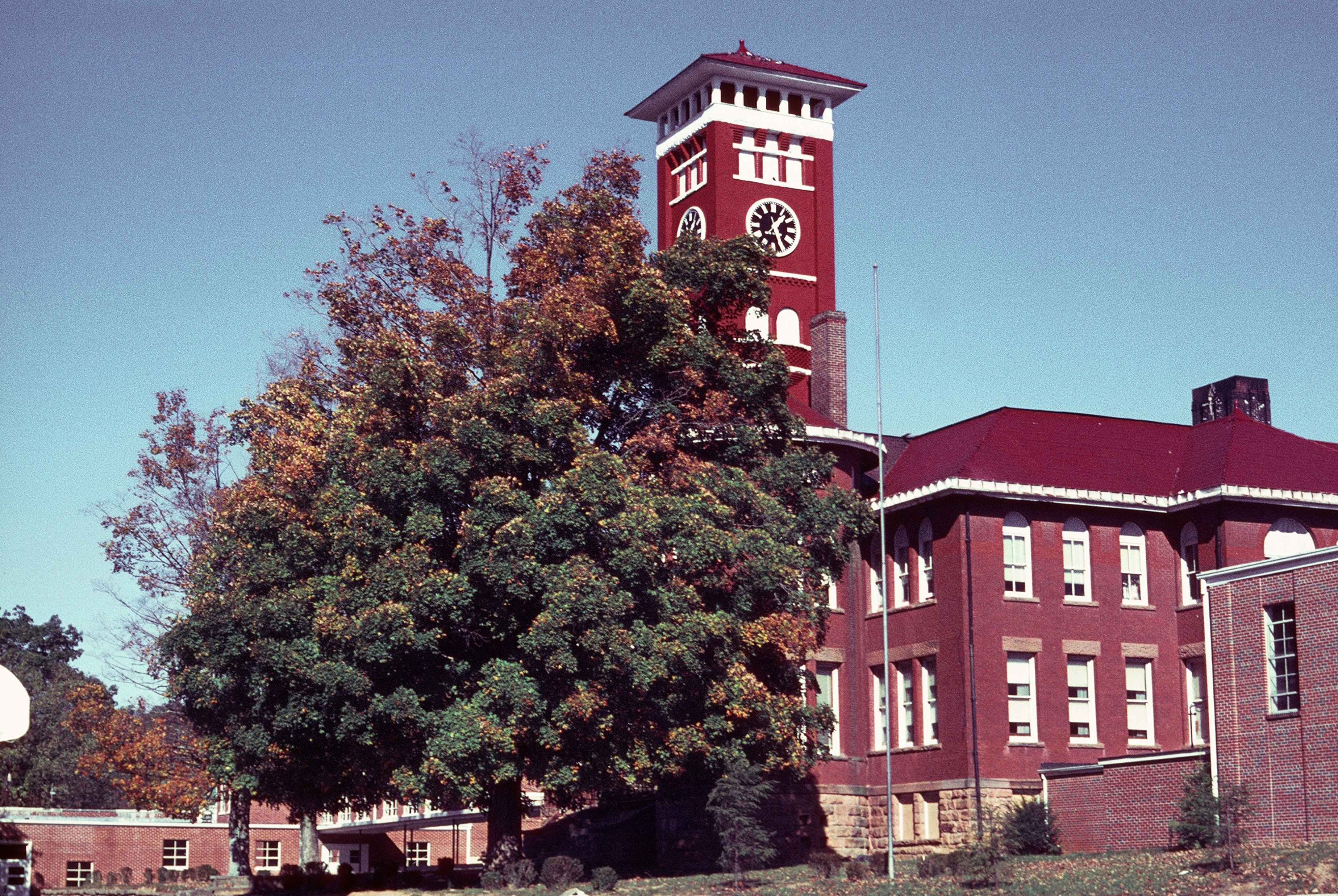 James K. Shook School, Tracy City, Tennessee. This building was burned in arson some time after the photo was taken.